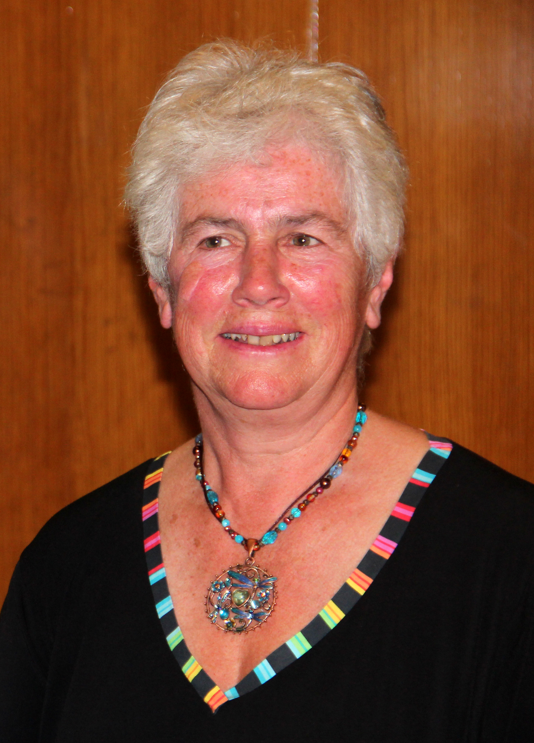 Angie Zelter, British activist against nuclear weapons (Trident Ploughshares), receives the 6th Hrant Dink Award in Istanbul, Turkey, 15 September 2014